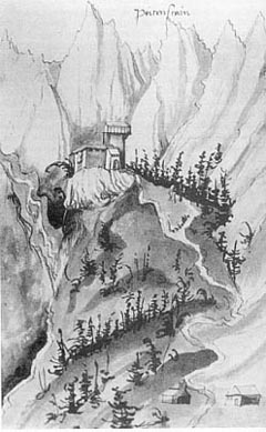 An image of Botestagno castel, 1476